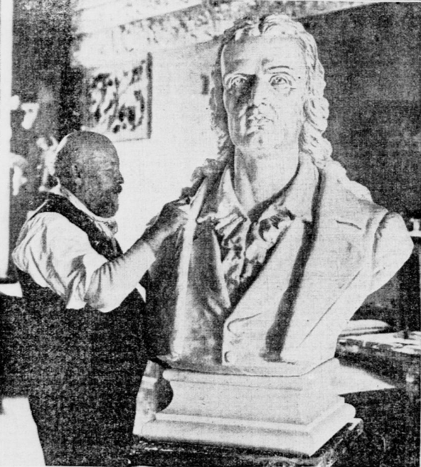 Bust of the German poet Friedrich Schiller, made for the Carnegie Hall centennial celebration, begin given finishing touched by the sculptor, Henry Baerer